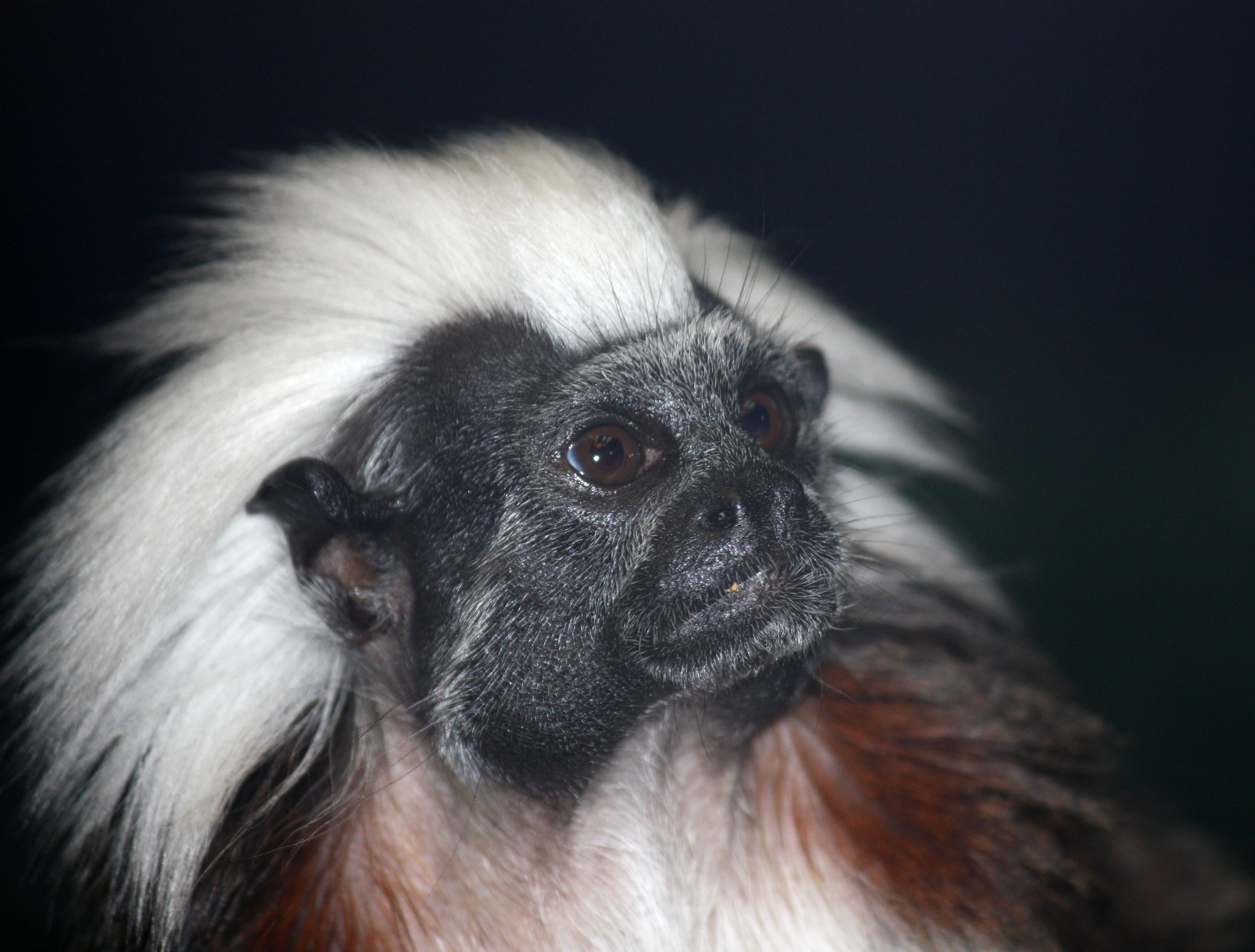 Cotton Top Tamarin Saguinus oedipus at Binder Park Zoo in Battle Creek, Michigan